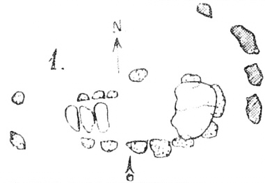 Outline of the dolmen Hohenwulsch-Friedrichsfleiß, Saxony-Anhalt